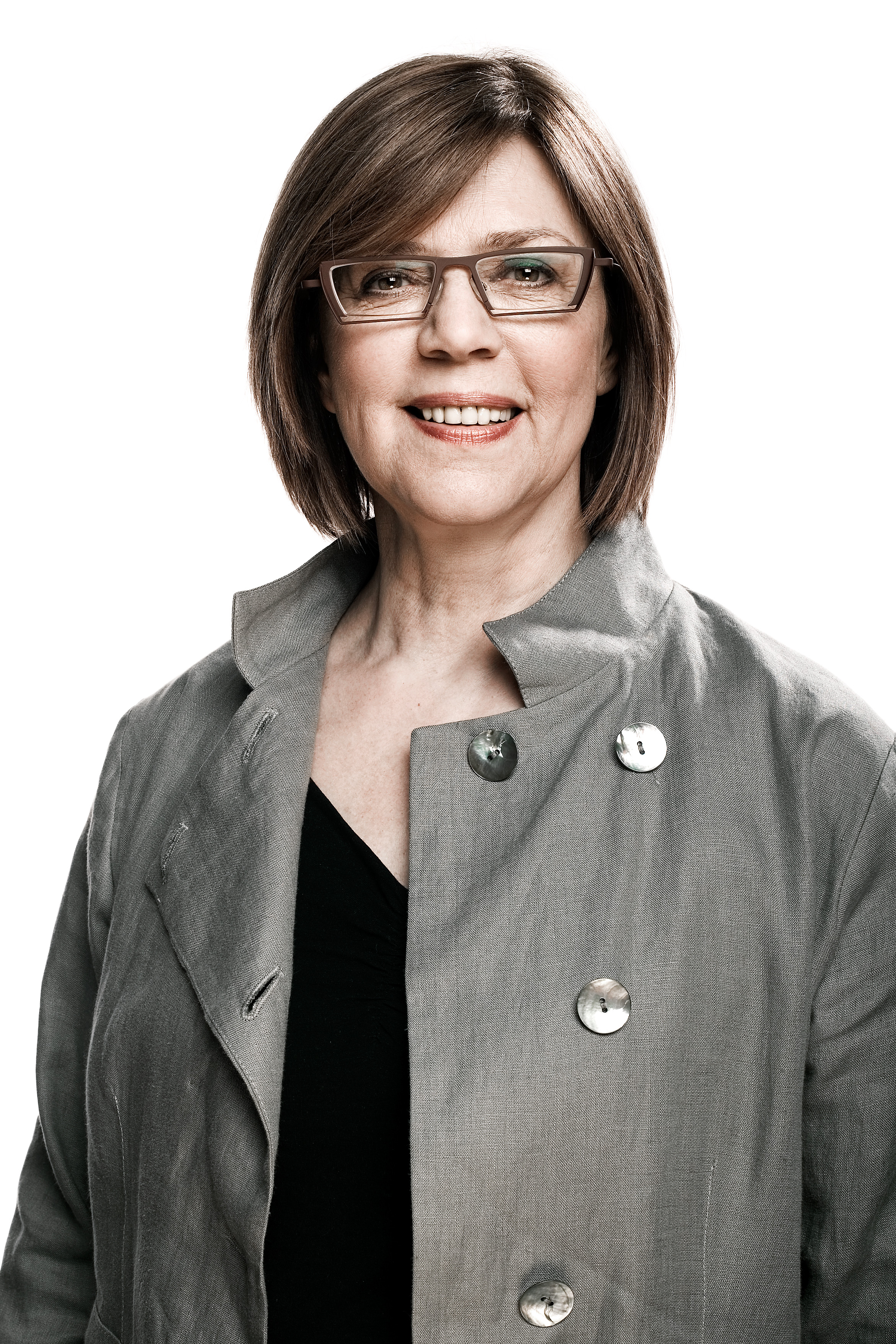 Álfheiður Ingadóttir, MP of the Icleandic Left-Green movement